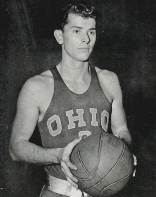 Ohio State basketball player Paul Huston from the 1946 “Makio” yearbook